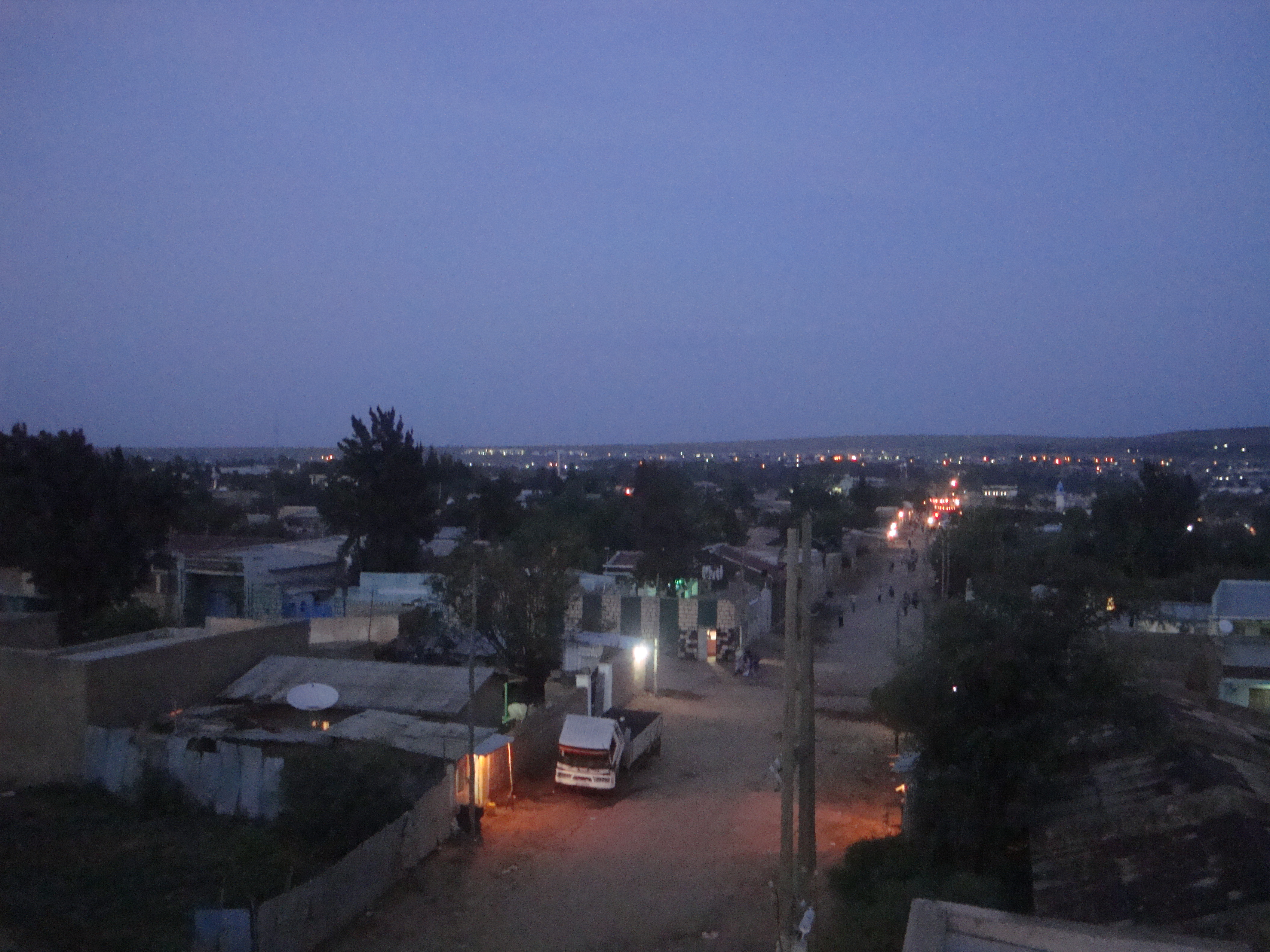 Jijiga Jijiga Town (Magaalada Jijiga)waxaan ka sawiray Sawirkan Dusha Huteelka Millenium